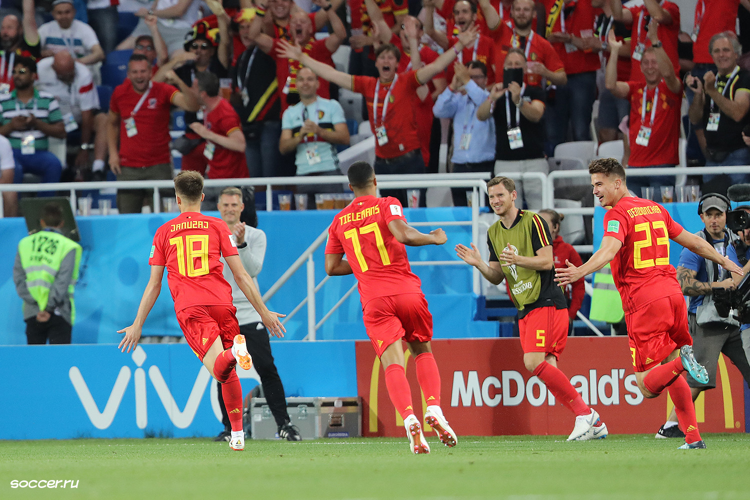 Adnan Januzaj scores against England